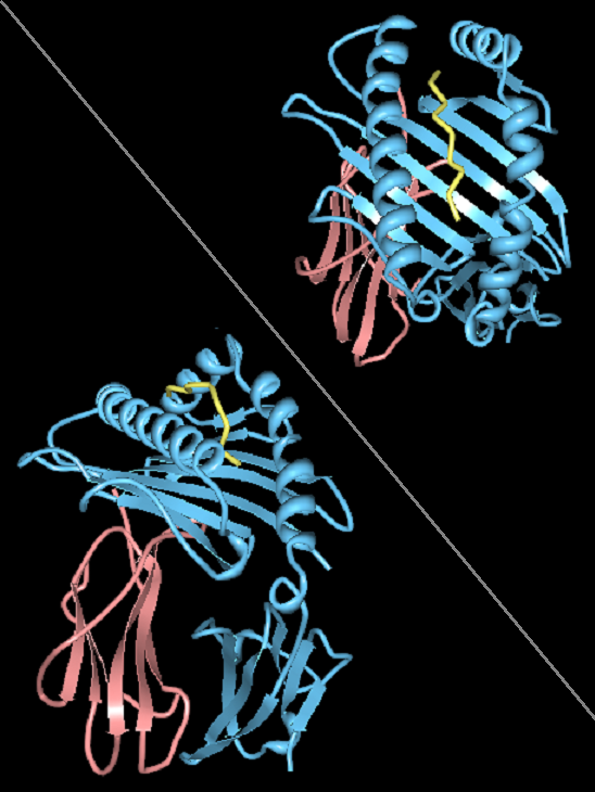 Rendering of PDB:2git. HLA-A2 (α - A*0201, β-2-microglobulin) with bound peptide - HTLV-1 TAX. Rendered with PDB Protein workshop 1.5. 3D structure produced as part of work: Gagnon, S.J., Borbulevych, O.Y., Davis-Harrison, R.L., Turner, R.V., Damirjian, M., Wojnarowicz, A., Biddison, W.E., Baker, B.M. (2006) T Cell Receptor Recognition via Cooperative Conformational Plasticity. J.Mol.Biol. 363: 228-243. 3-D structure titled:Human Class I MHC HLA-A2 in complex with the modified HTLV-1 TAX (Y5K-4-[3-Indolyl]-butyric acid) peptide.